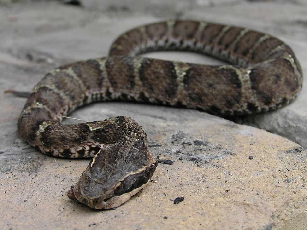 Gloydius blomhoffiiニホンマムシ